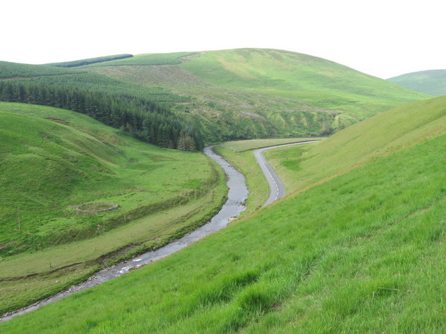 Crawick Water below the Dod.